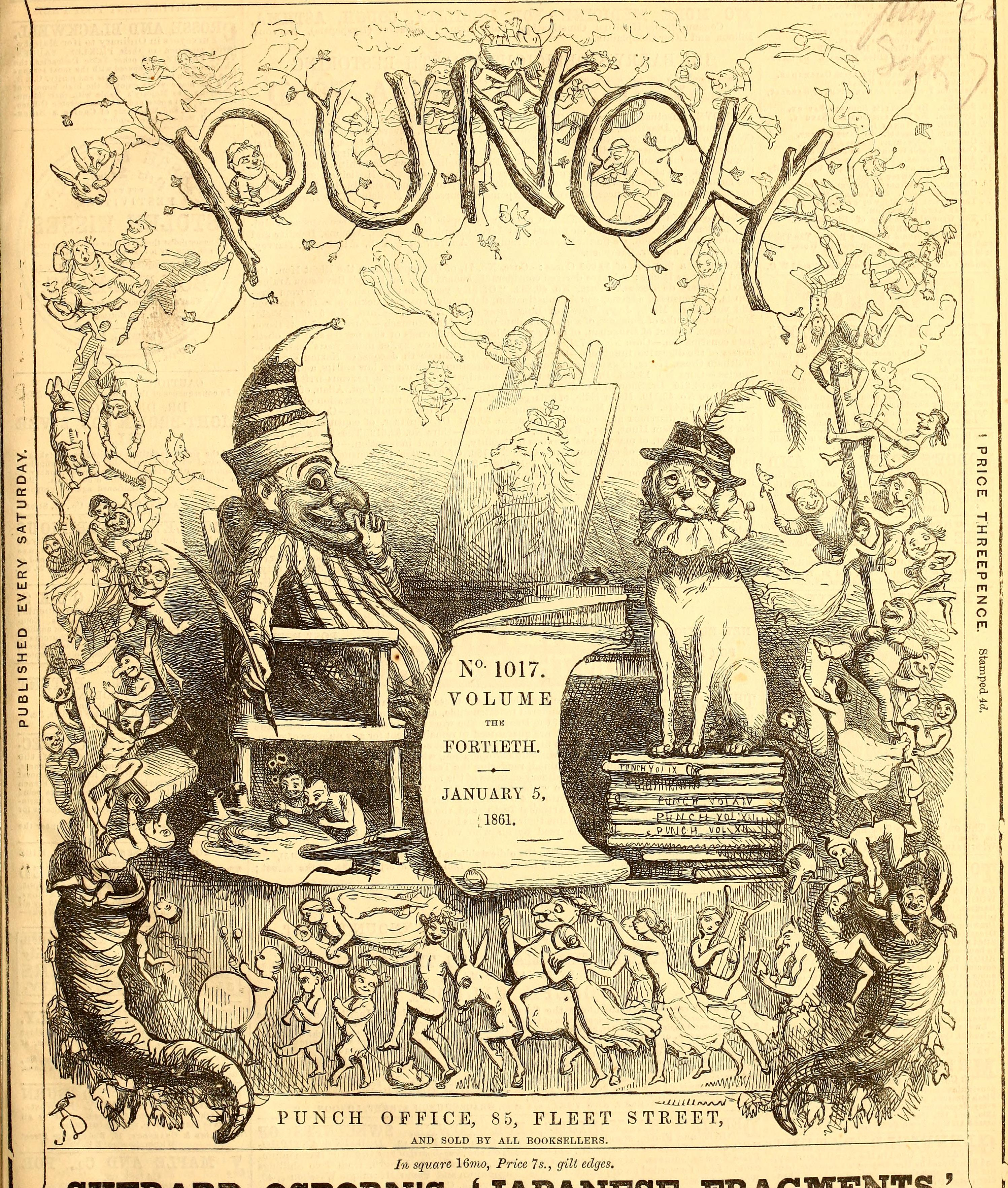 Title: Punch Year: 1841 (1840s) Authors: Lemon, Mark, 1809-1870 Mayhew, Henry, 1812-1887 Taylor, Tom, 1817-1880 Brooks, Shirley, 1816-1874 Burnand, F. C. (Francis Cowley), 1836-1917 Seaman, Owen, 1861-1936 Subjects: English wit and humor English wit and humor, Pictorial Publisher: (London) : (Punch Publications Ltd., etc.) Text Appearing Before Image: A PRESENT FOR ALL SEASONS.-In One Volume, Cloth gilt, Price 5s. 6d. PUNCHS TWENTY ALMANACKS from 1842 to 1861. It was a happy notion to reproduce a Volume of these Almanacks for the last Twenty Years, in which we cm trace their manifest improvement up to Christmas, 1860.—The Times. Text Appearing After Image: In square, \Qmo, Price 7 s., gilt edges. SHERARB OSBORNS JAPANESE FRAGMENTS. We look upon this as a genuine little look, which is quit? a relief to the eye, among the reproduction of mawkish originals whichabound at this season, and which give such a dreary aspect to the drawing-rooms of deluded purchasers.—The Times. London: Beadbury and Efans, 11, Bouverie Street, Fleet Street, E.C. \ PUNCH, OK THE LONDON CHARIVARI.—J anoaby 5, 1861. A Nearly Ready, in demy Svo, pp. 350,THE FIRST VOLUME OF SYSTEM OF SURGERY, THEORETICAL AND PRACTICAL, in Treatises by various Authors, arranged and editedby T. Holmes, M.A. Cantab.. Assistant Surgeon tothe Hospital for Sick Children. Contents of the First Volume : 1. Inflammation. By John Simon. 2. Abscess. By Holmes Coote. 3. Sinus and Fistula. By James Paget. 4. Gangrene. By Holmes Coote. 5. Ulceration and Ulcers. By James Paget. 6. Erysipelas and the allied Diseases. By Camp- bell de Morgan.7- Pysemia. By George William Callender. 8. Tetanus. By